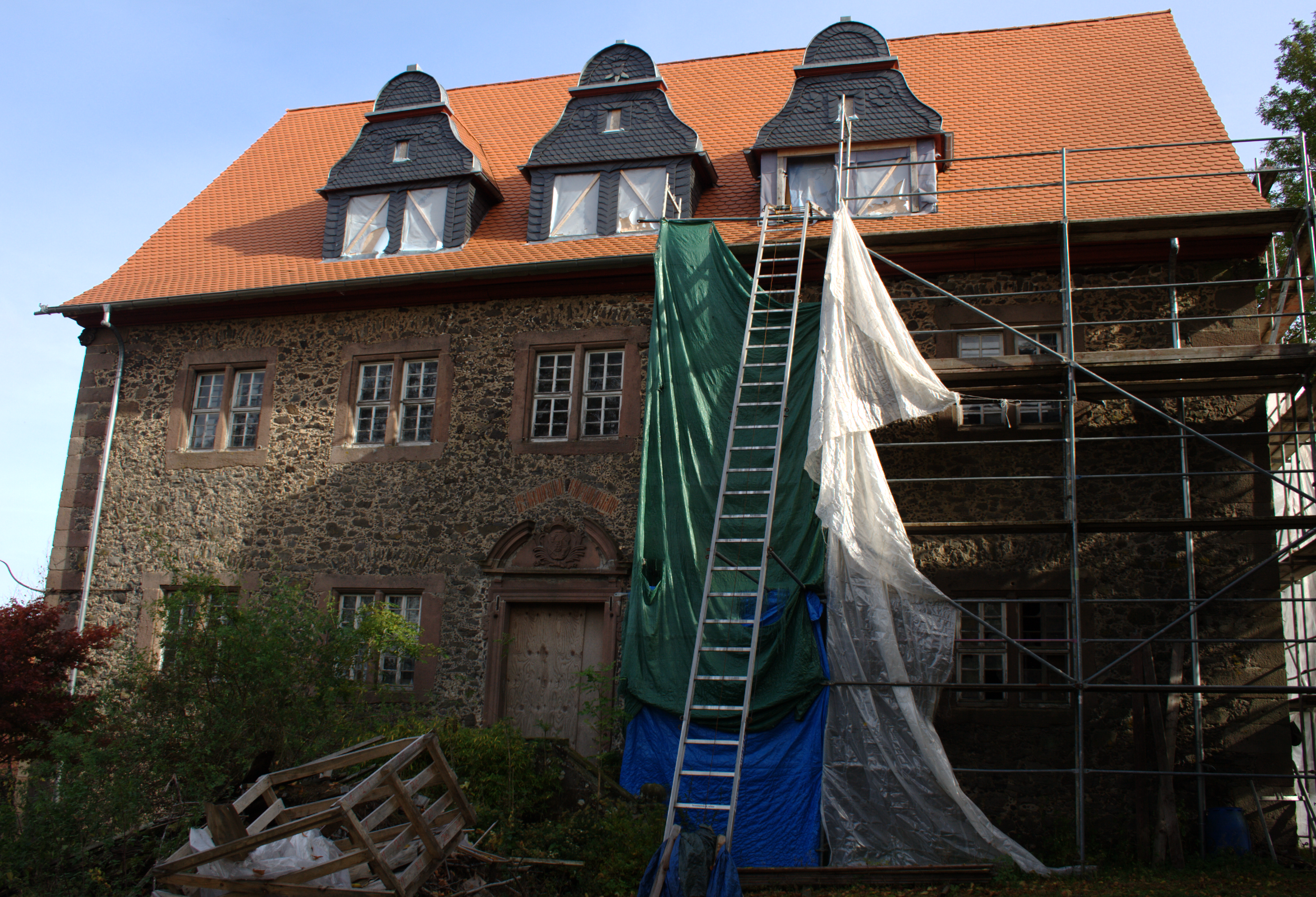 Castle in Freiensteinau / Hesse / Germany